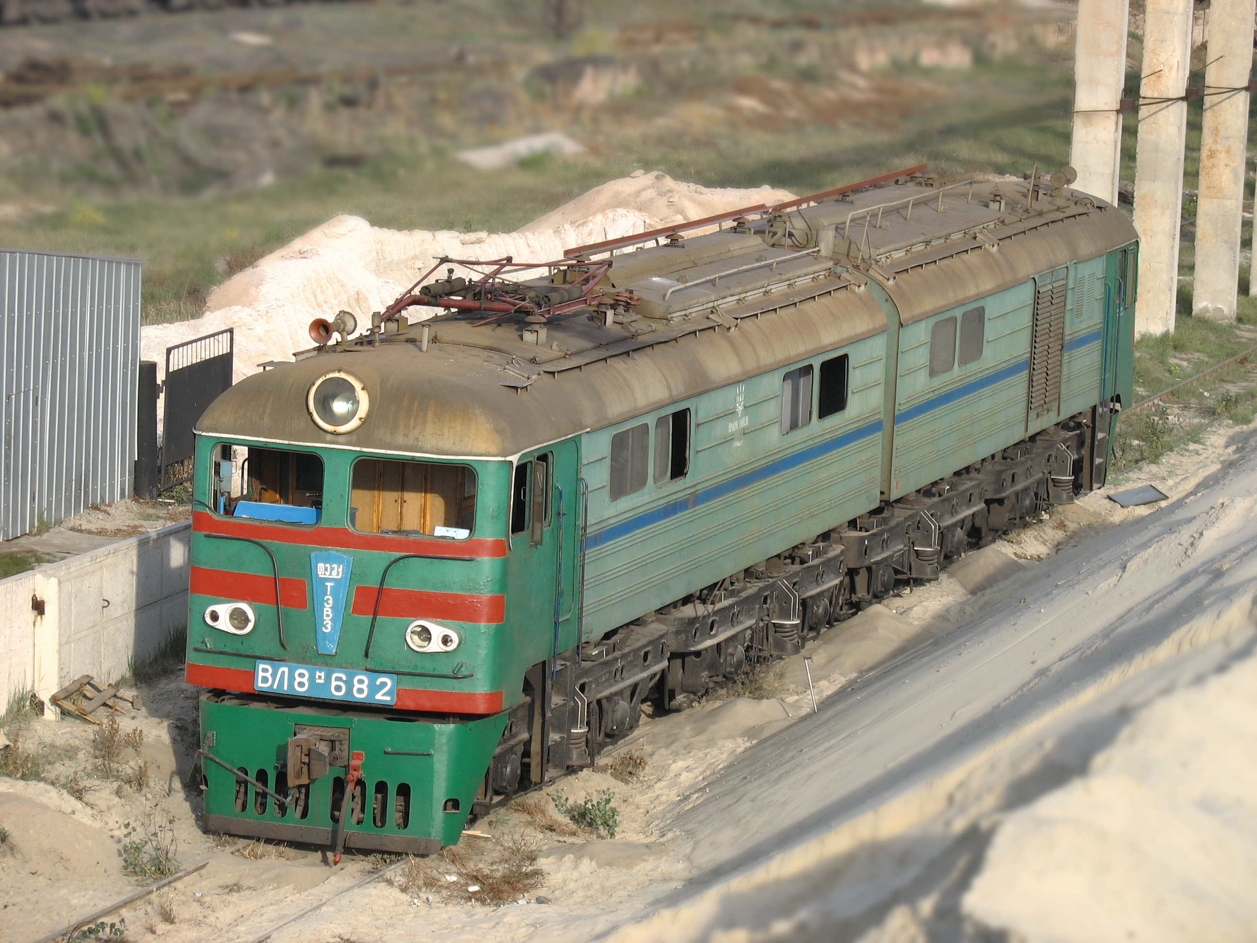 The VL8 (ru: ВЛ8) is a Soviet built electric DC mainline freight locomotive.